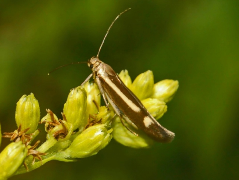 Scythris heinemanni